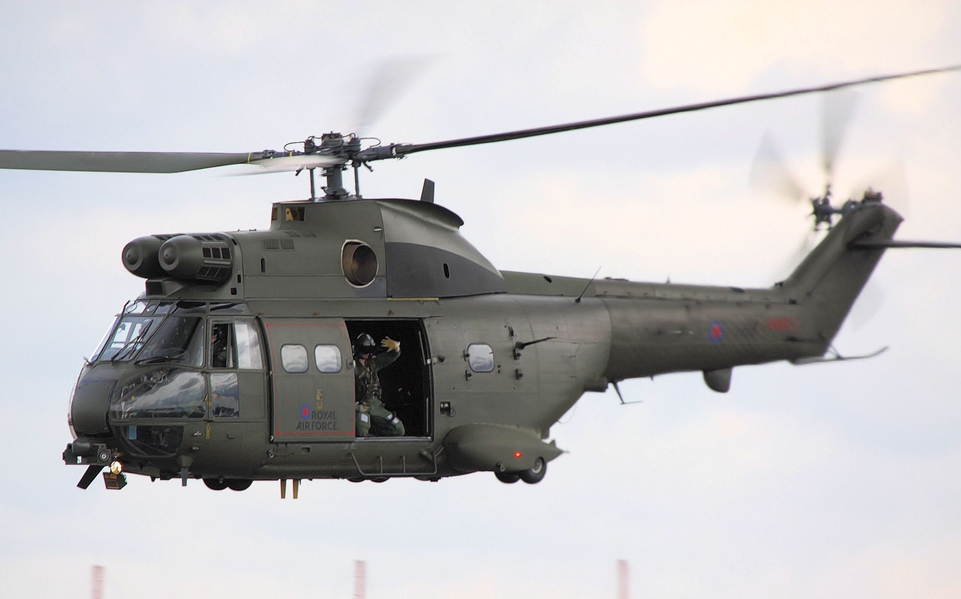 An RAF SA 300 Puma at RIAT 2009